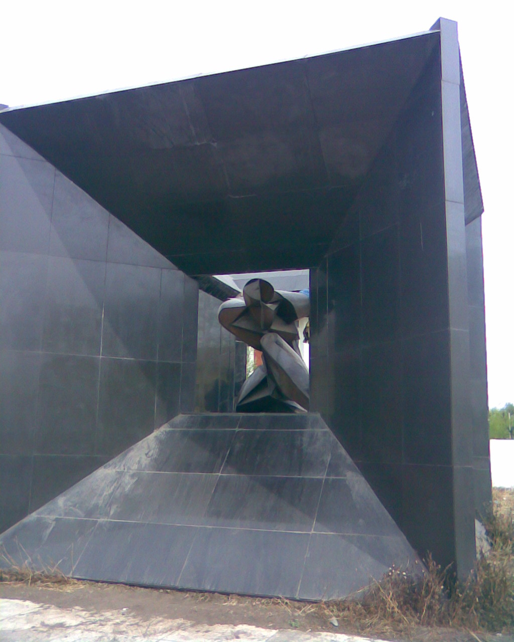 Purge Victims Memorial Monument, in Ulaan Baatar, Mongolia. Honoring the victims of the Stalinist Soviet purges of Mongolian citizens and Buddhist monastics in the 1930s, during the People's Republic of Mongolia era. Part of Stalin's Great Purge, the number of individuals killed is usually estimated to have been between 22,000 and 35,000 people, with some estimates up to 100,000 victims. 18,000 victims were Buddhist lamas. Монгол: Хэлмэгдэгсдийн хөшөө